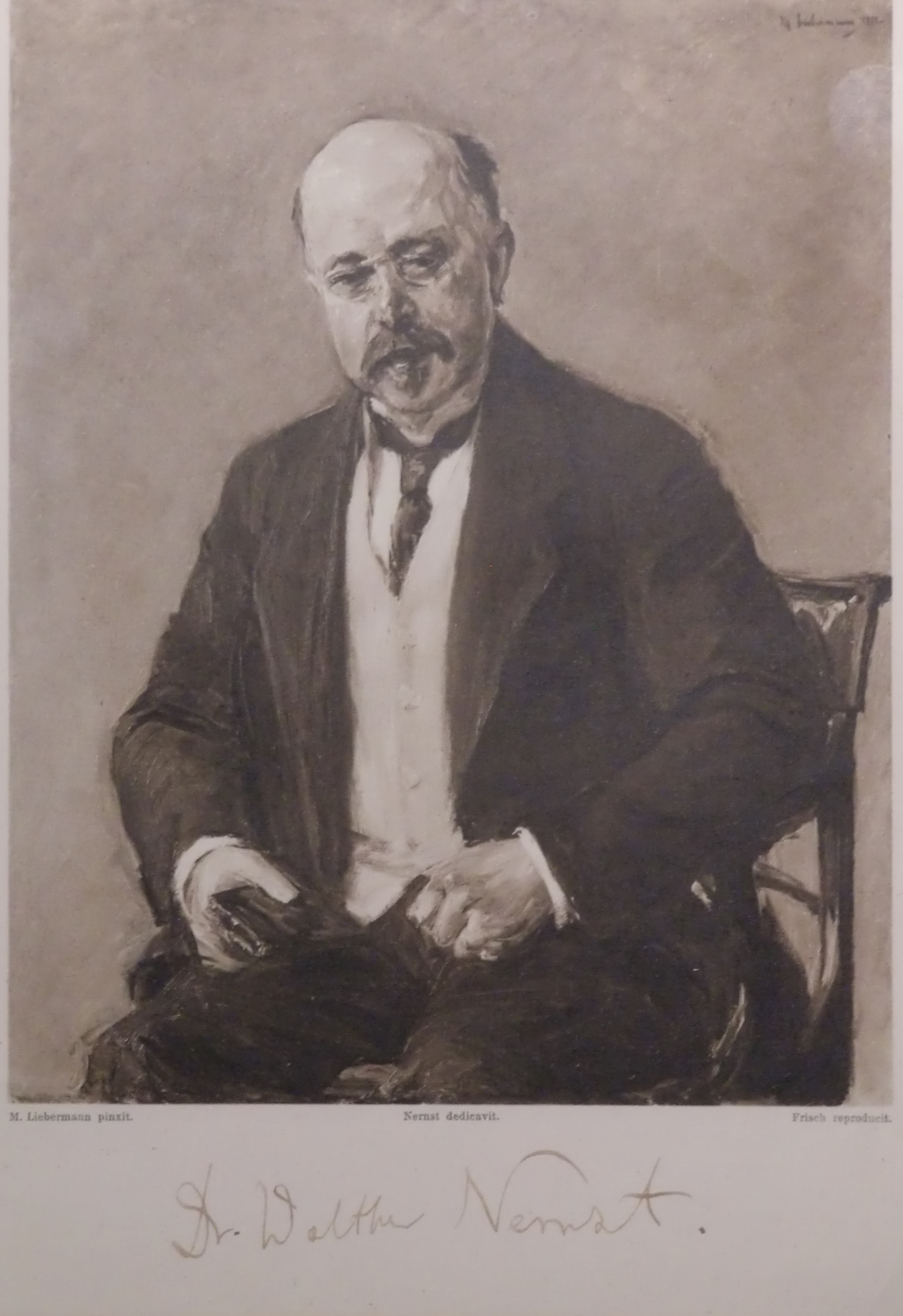 Portrait of Walther Nernst, painted by Max Liebermann 1912, property family Nernst, lost 1945